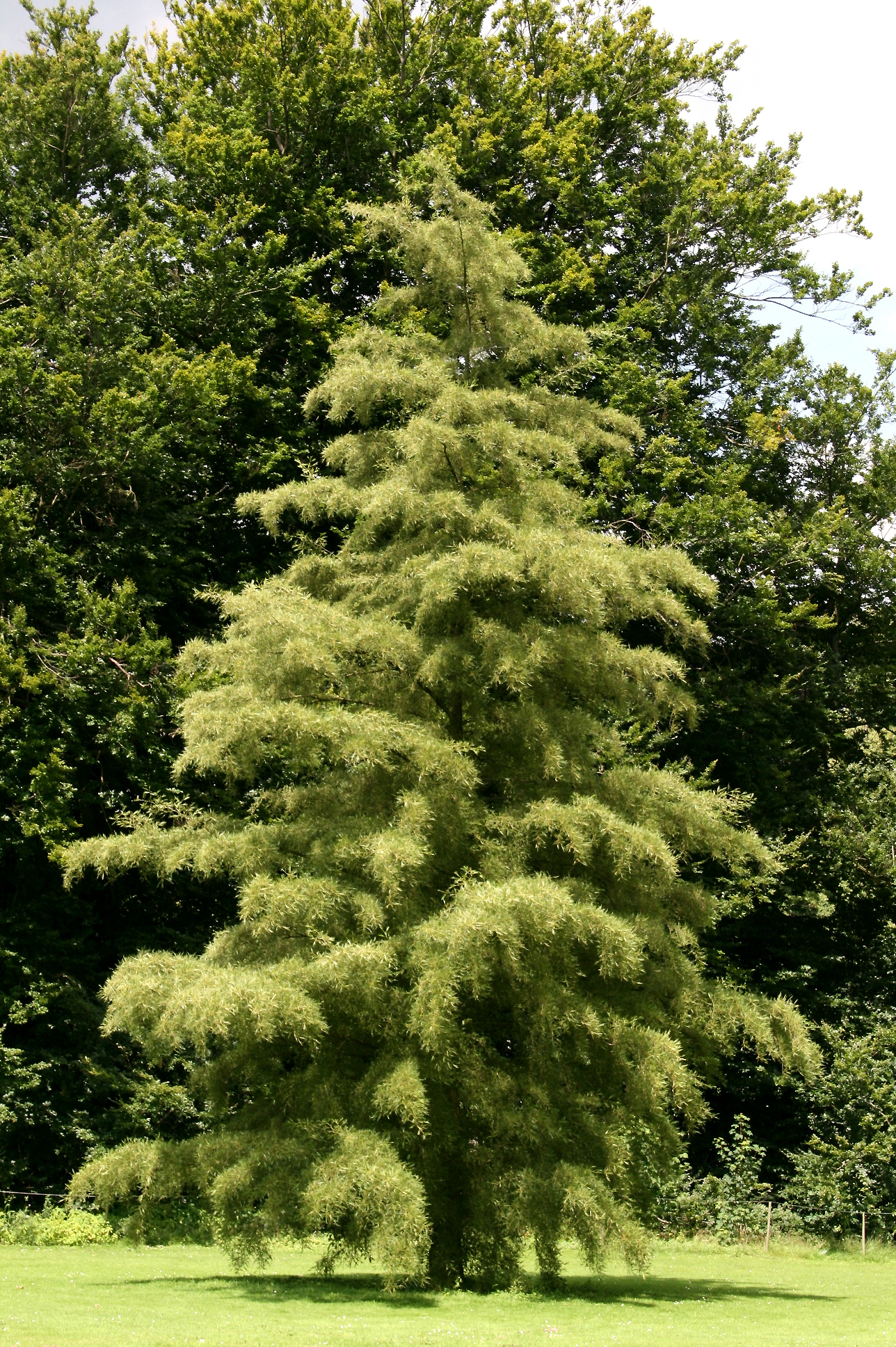 Alder or Common Alder Alnus glutinosa 'Imperialis'. Precise location : Meise (Belgium) – National Botanic Garden of Belgium. Walon: Nwâre broke Alnus glutinosa 'Imperialis'. Place rèctae : Meise (Bèljike) – Djardin Botanike National di Bèljike.